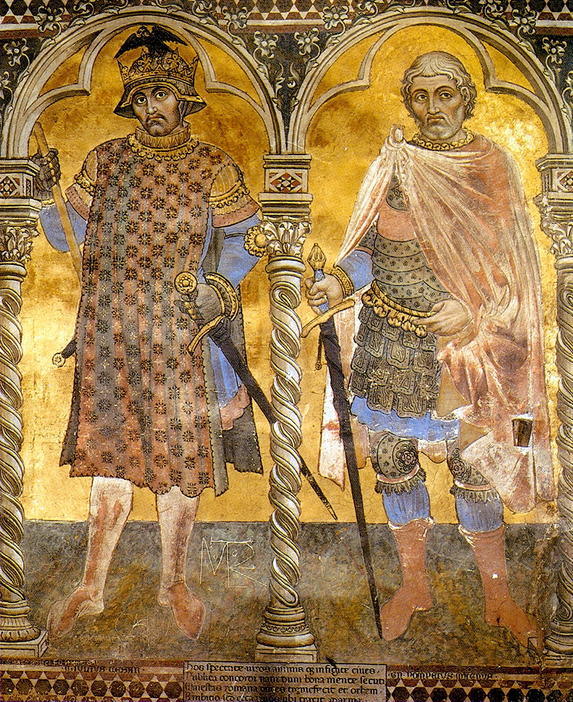 Cesar and Pompei